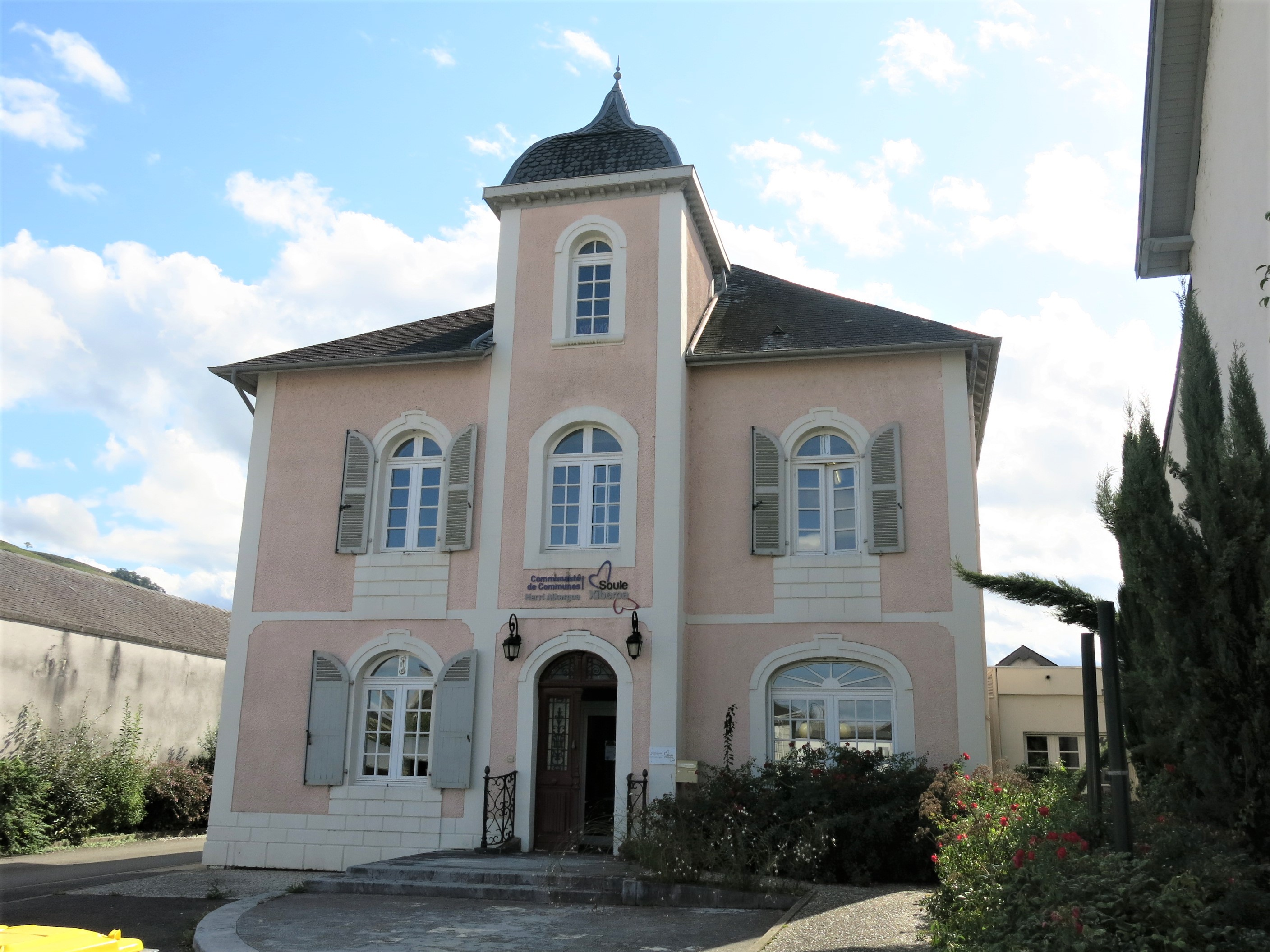 Community of municipalities of the region of Soule-Xiberoa in Mauléon-Licharre, (Pyrénées-Atlantiques, France).